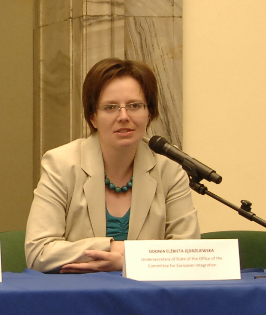 EPP Congress Warsaw